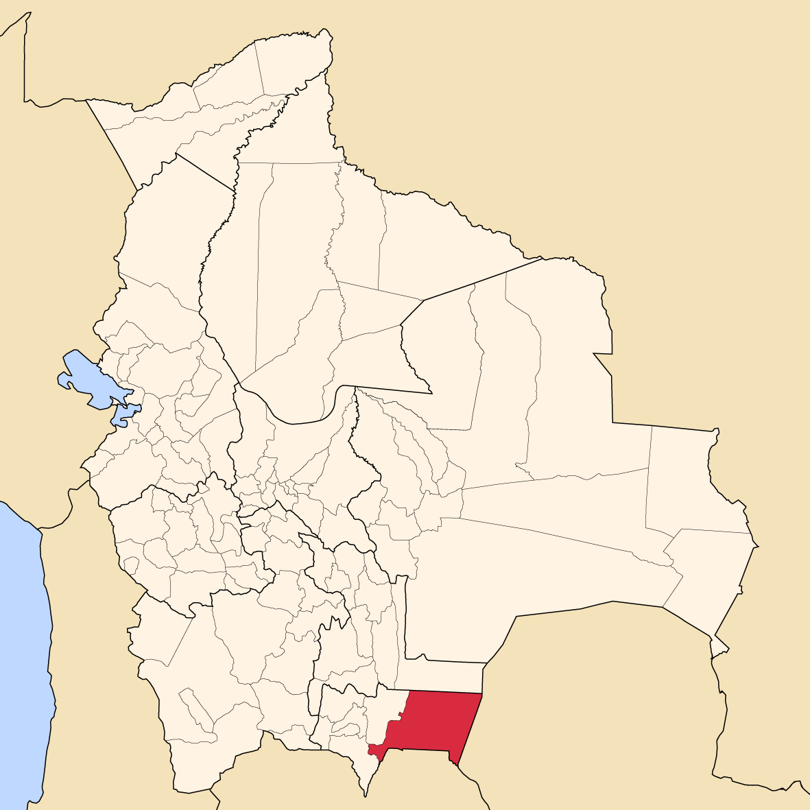 Map of Bolivia showing Gran Chaco province, Tarija